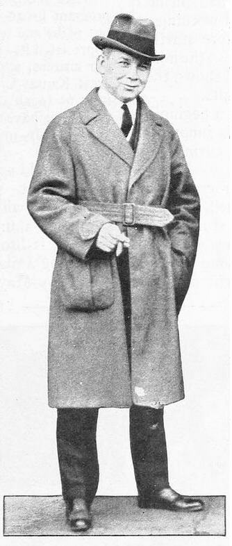 From an article on municipal radio services, including station WHB in Kansas City. Original caption: "MAYOR FRANK CROMWELL Who is letting Kansas City Listeners-in know how their city is run."